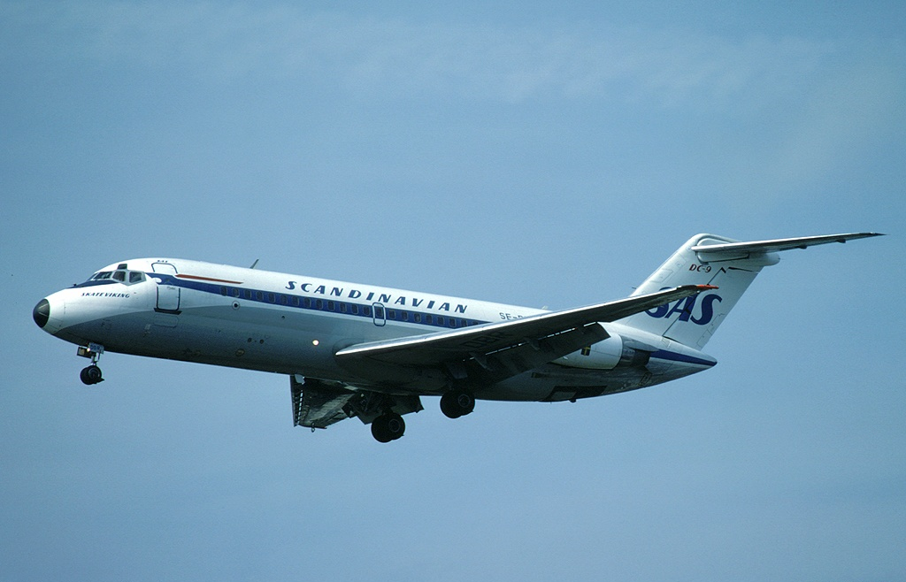 Scandinavian Airlines System (SAS) McDonnell Douglas DC-9-21 SE-DBR Skate Viking at London Heathrow Airport